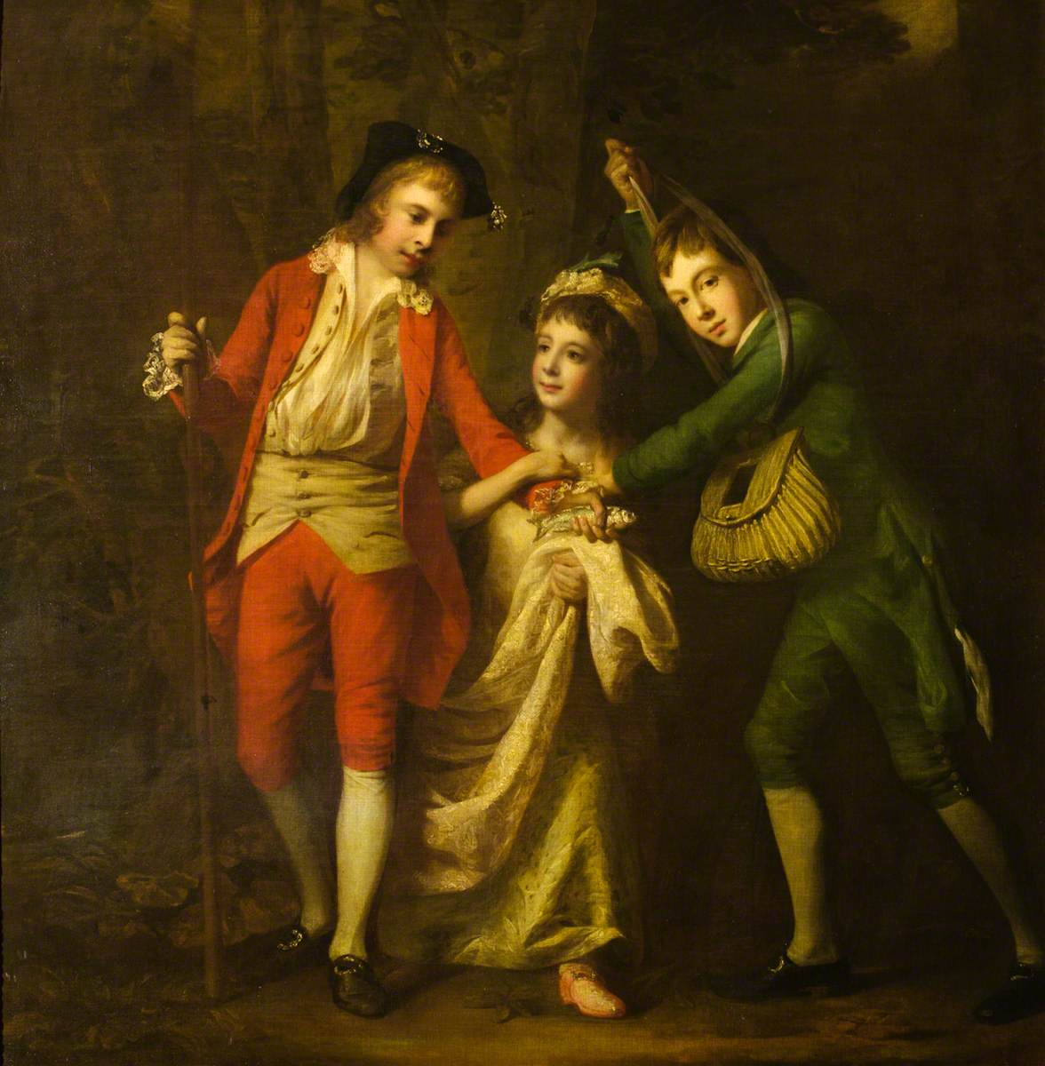 James Sinclair-Erskine, later 2nd Earl of Rosslyn (1762-1837), his Brother John & his sister Henrietta Maria, full-length with fish & fishing tackle in la landscape.